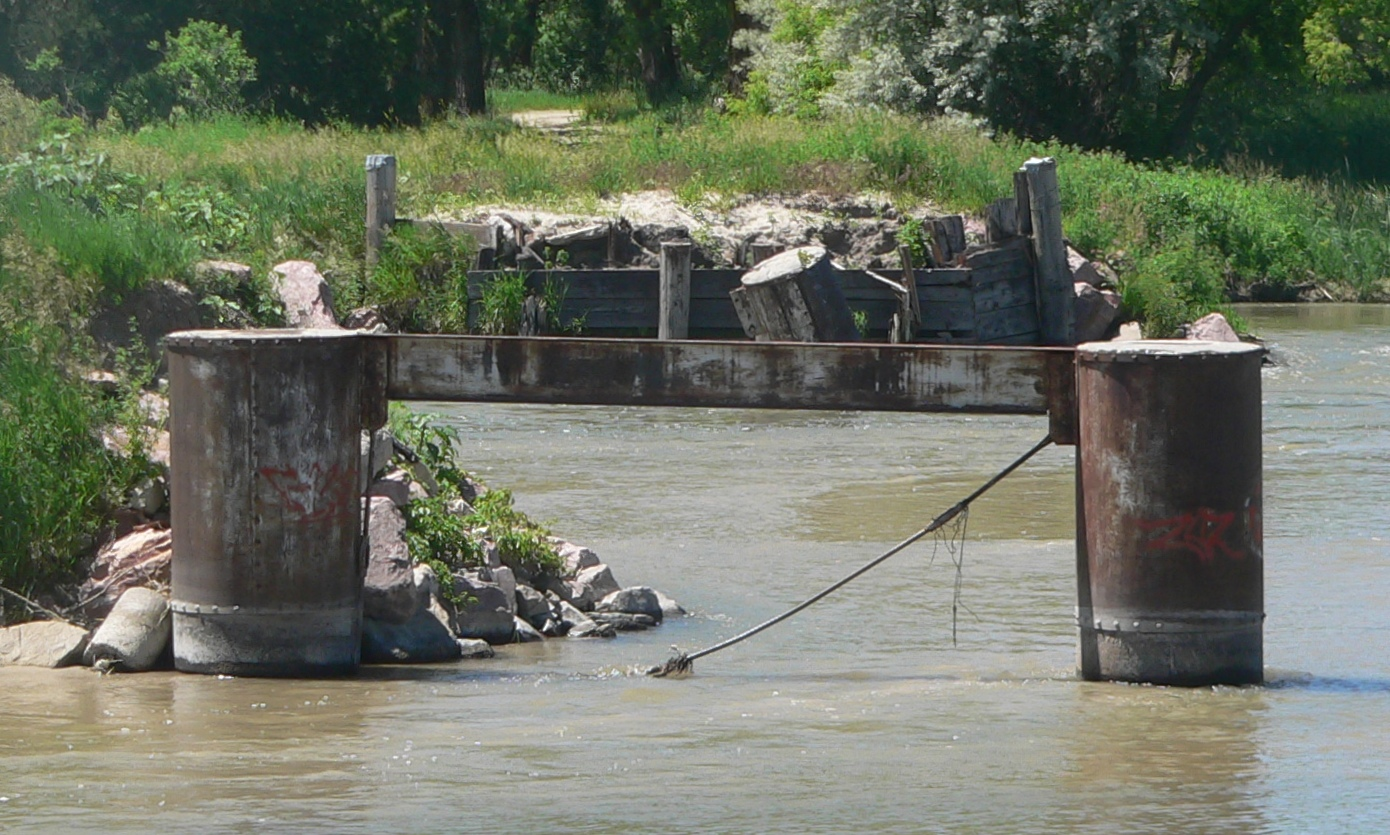 Remains of truss bridge across Middle Loup River at Sargent, Nebraska. Bridge destroyed by flood in March 2019; photographed from north bank on June 24, 2019.